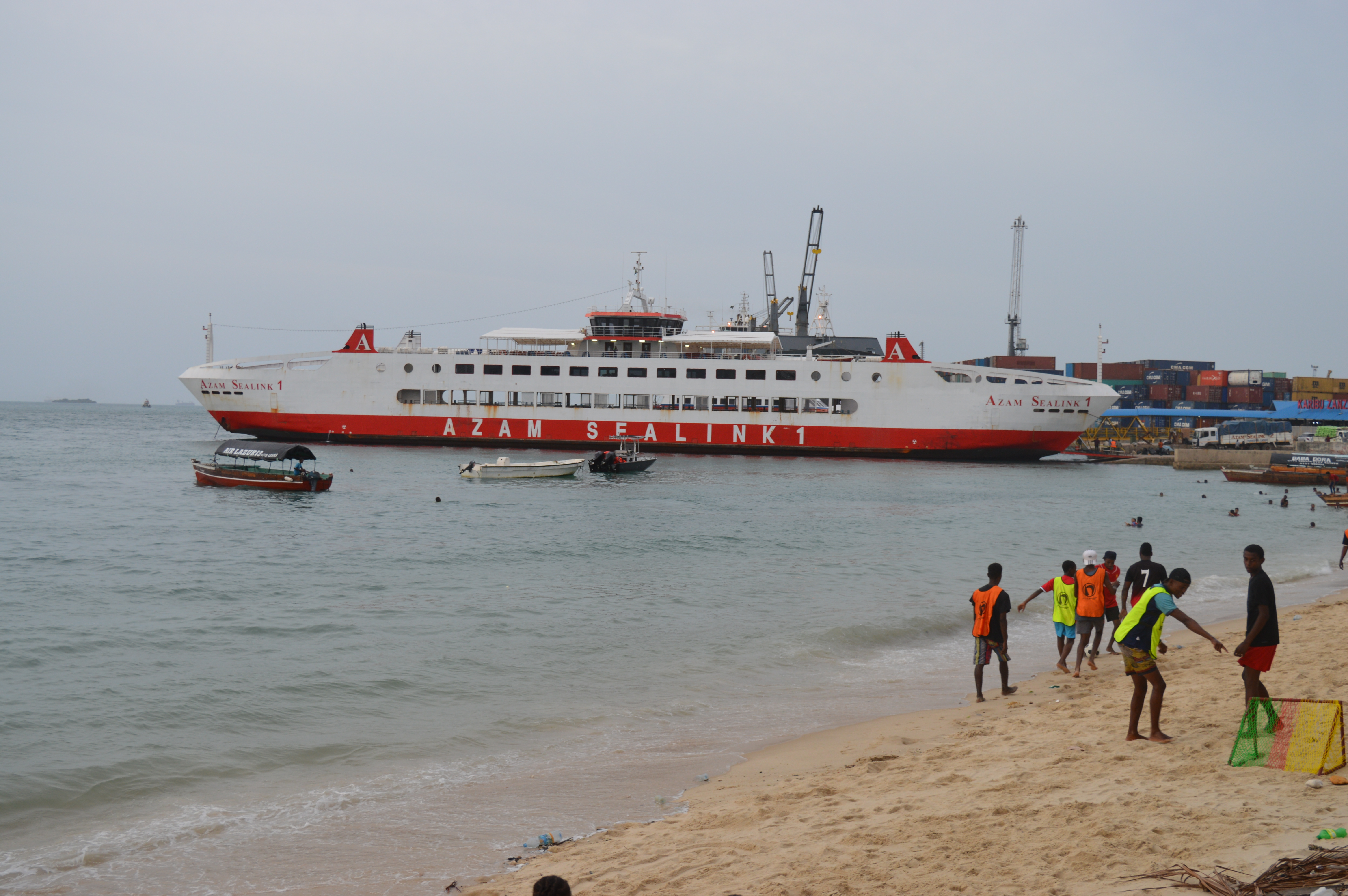 Transport from Zanzibar fell is the favorite marine mean of transport! This is an image with the theme "Africa on the Move or Transport" from: Tanzania